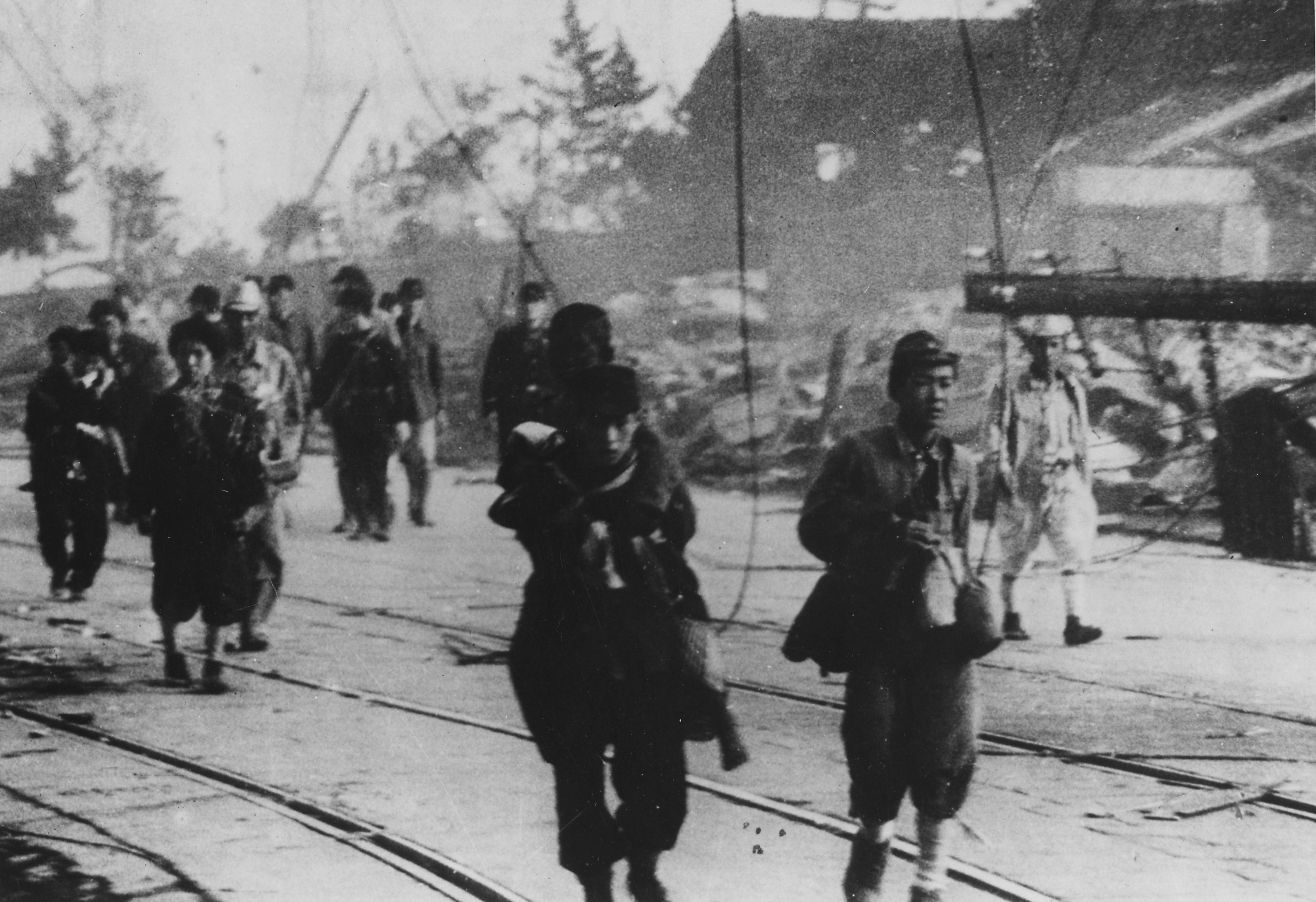 Survivors after the atomic bombing of Nagasaki, Japan